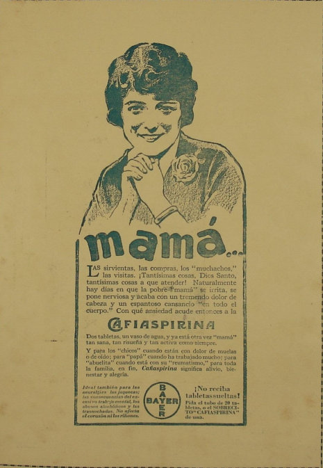 Publicidad 2